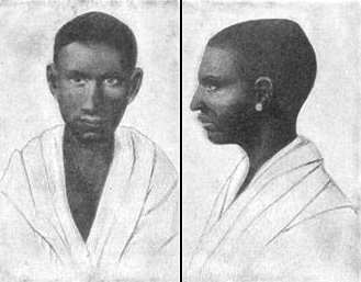 Sketch of a woman of the Beta Yisrael (Jews of Ethiopia), originally entitled "Falasha Woman, Showing Full Face and Profile" and first published in Lefebure, Voyage en Abyssinie. Taken from the 1901-1906 Jewish Encyclopedia, now in the public domain.